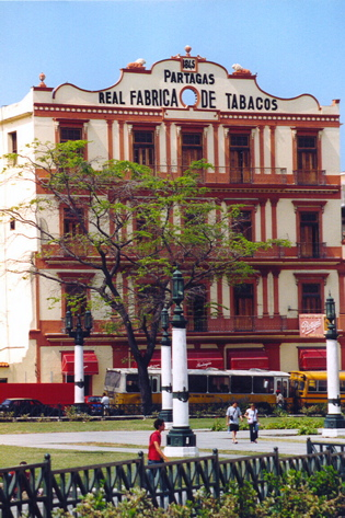 Cuba - Havana Partagas Cigar Factory.